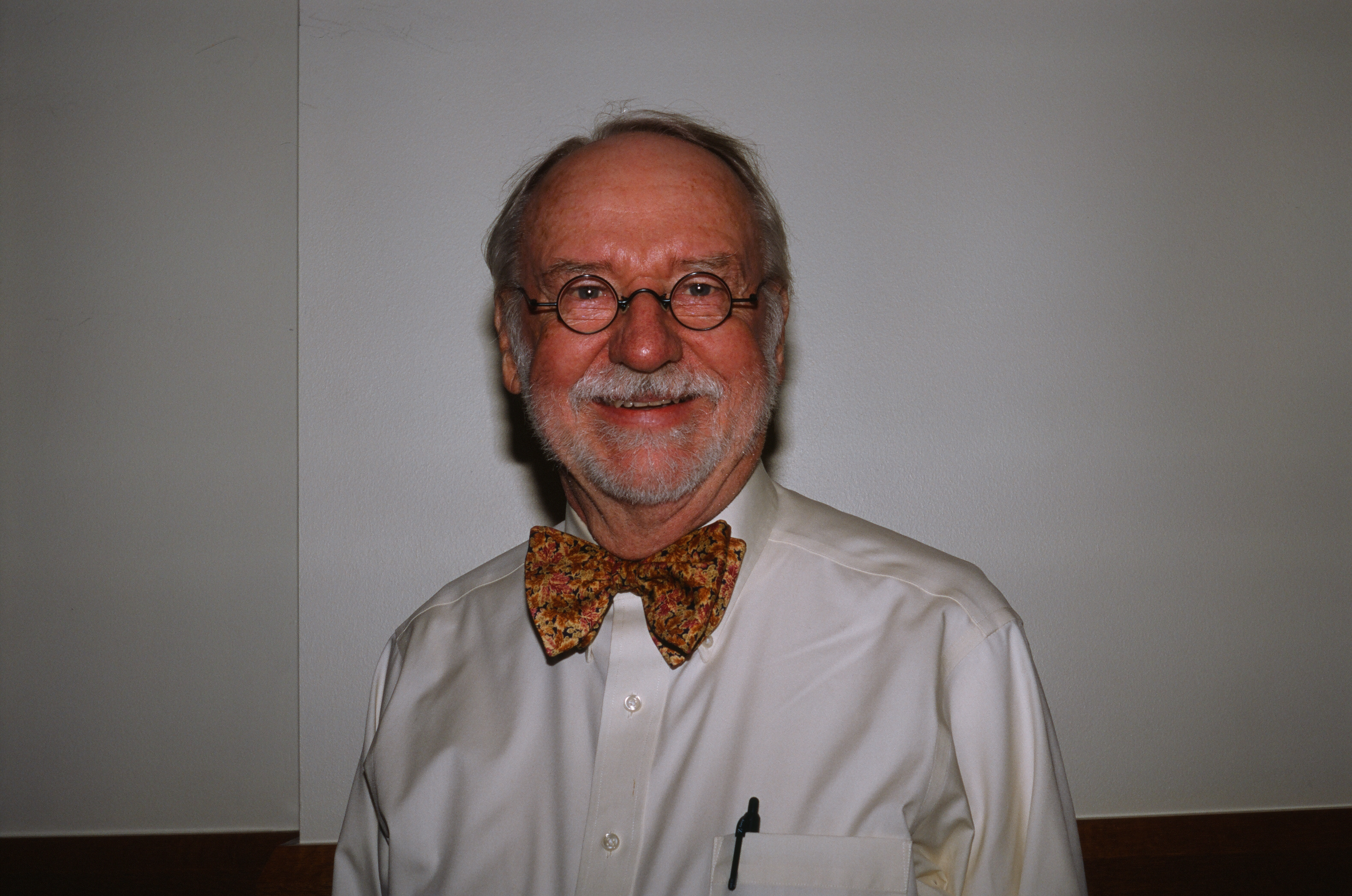 Donald Davis came to the Provo, Utah to the public library to tell stories. Agfa 100 slide film